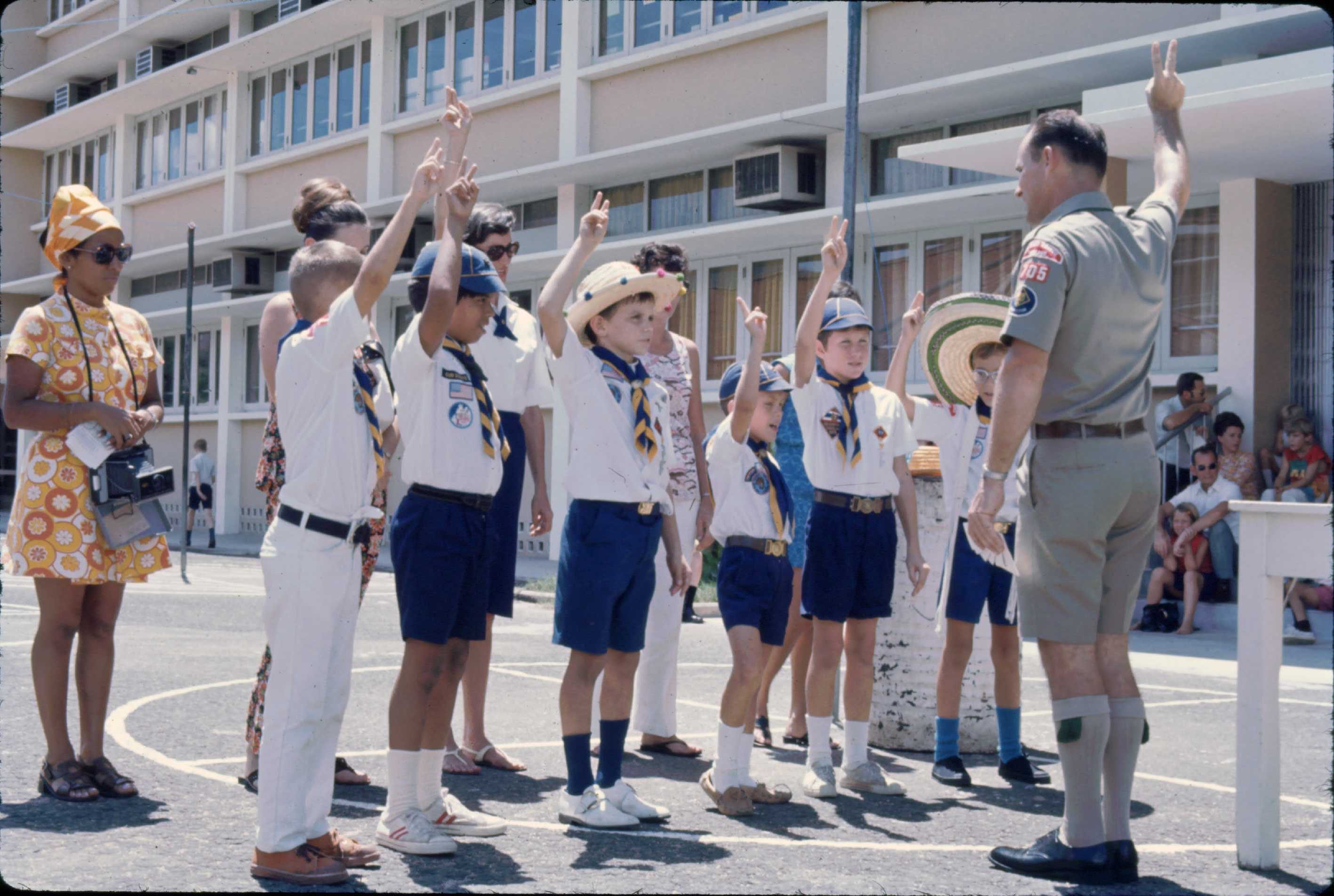 Cub scouts raise their hands and take an oath. American School in Bangkok, Thailand